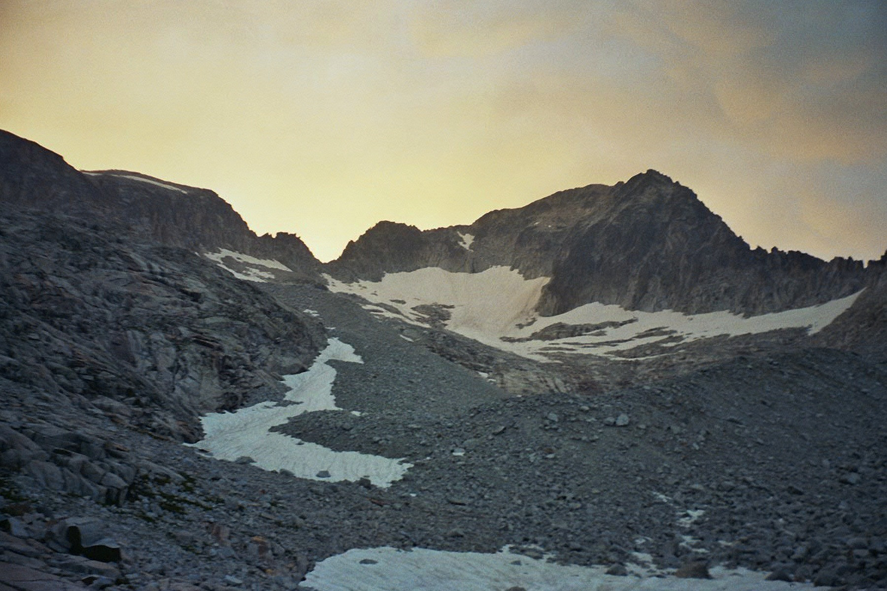 Pico d'Aneto viewed from Medium Ibon de Coronas, 2005-07-25 in the morning. Mountain, Pyrenees, Aragon, Spain